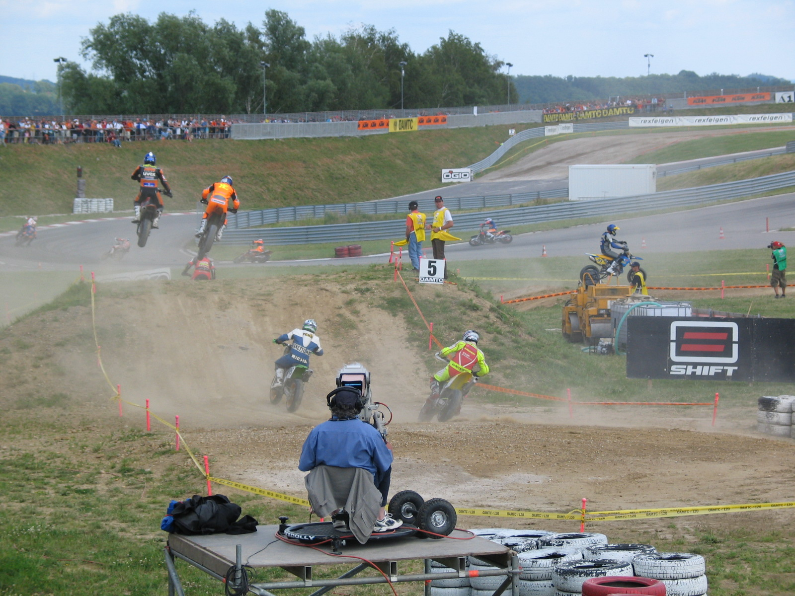 Supermoto WM Wachauring Melk